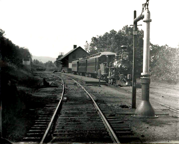 Postcard of the Waterloo Station (New Jersey) on the Sussex Railroad with the John Blair engine.